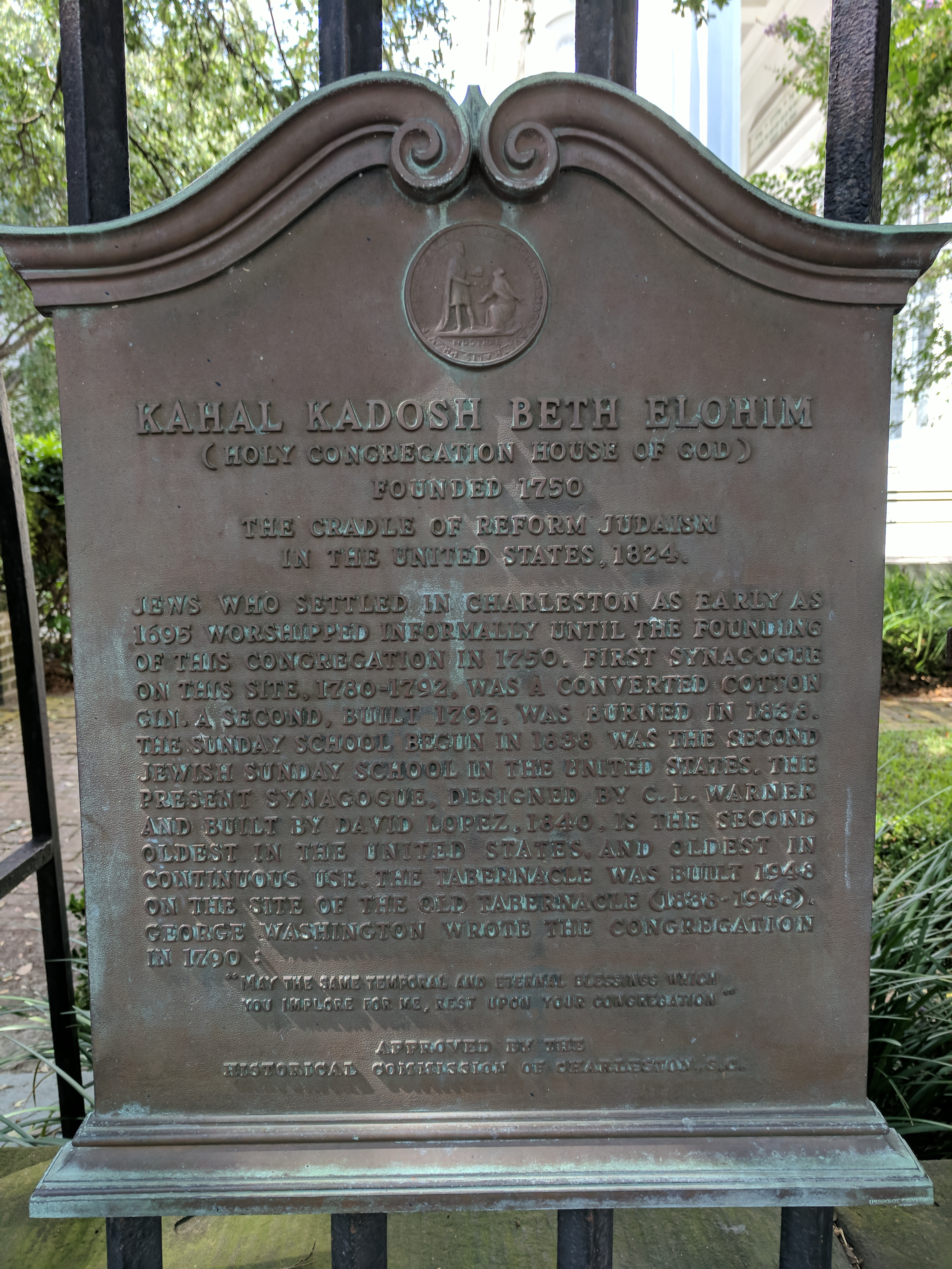 A historical plaque at the entrance to the grounds of the Congregation Kahal Kadosh Beth Elohim in Charleston, SC.